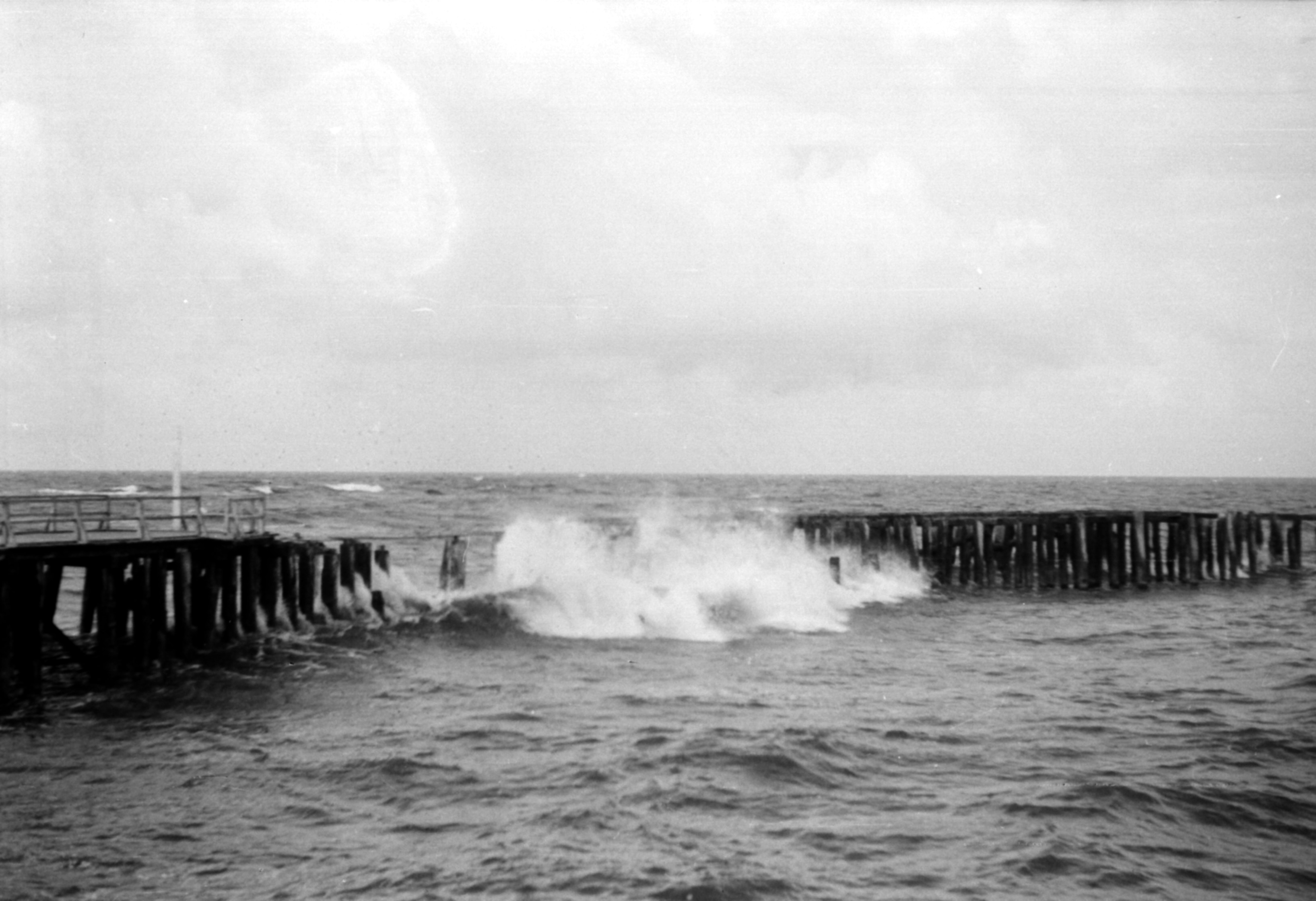 Palanga pier in 1956, LithuaniaLietuvių: Palangos tiltas 1956 m., Lietuva